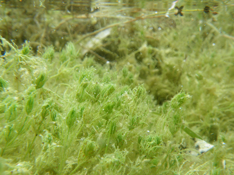 Chara vulgaris (Characeae)